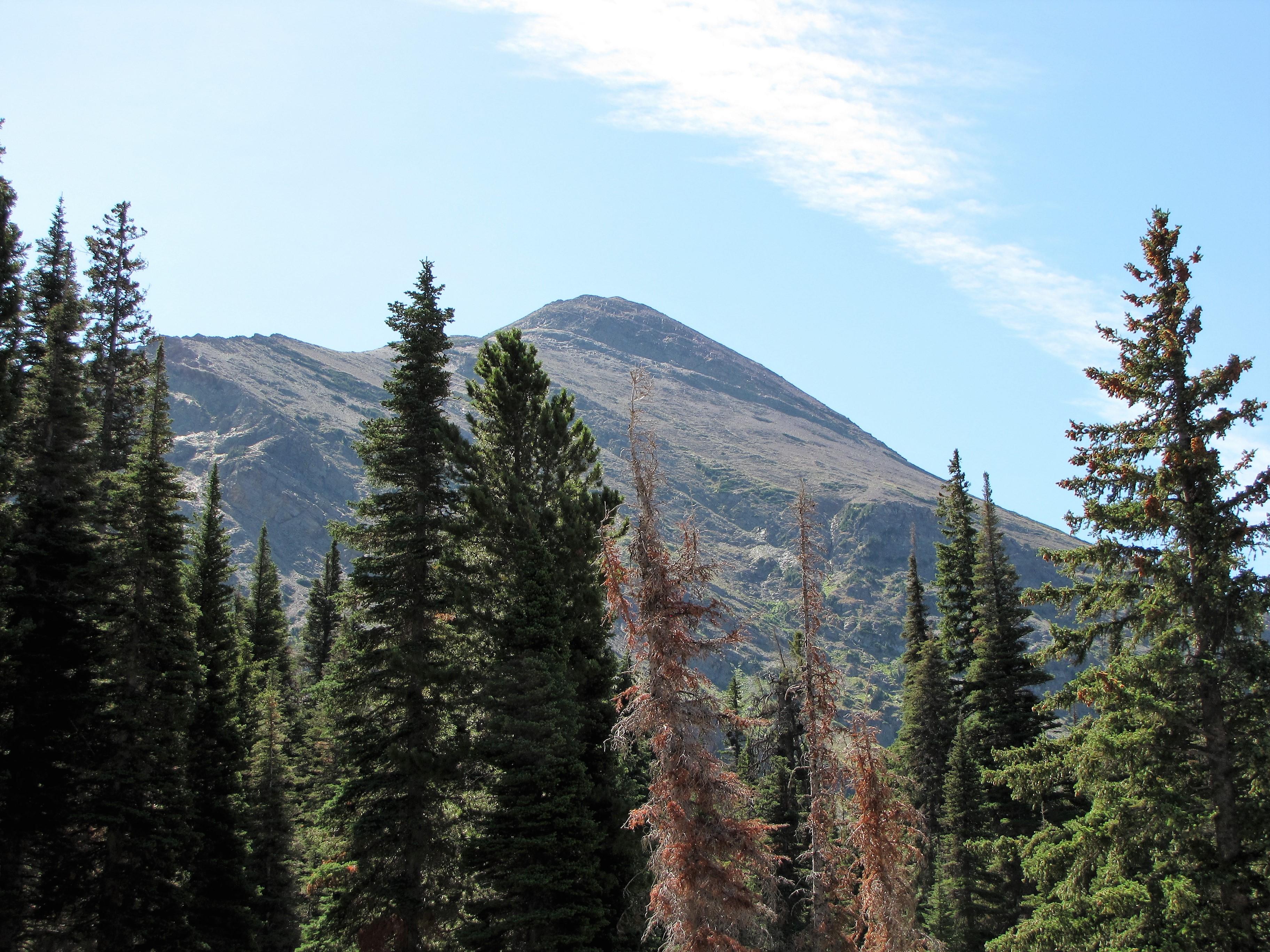 Appistoki Peak in Two Medicine region of Glacier National Park.